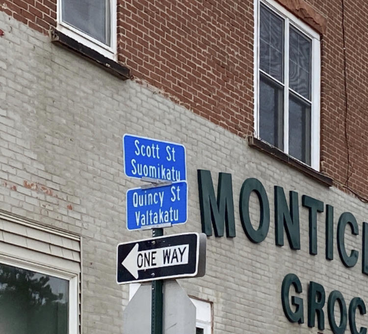 Bilingual street name signs in English and Finnish in Hancock, Michigan, United States